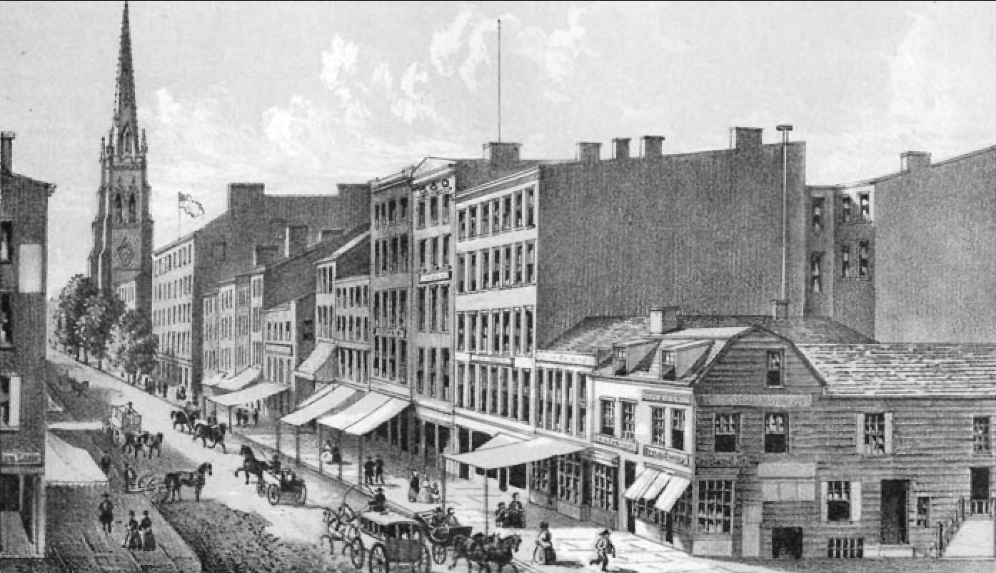 Looking south on lower Broadway in the year 1834. Trinity Church is in the background. (Courtesy of the New York Public Library.)